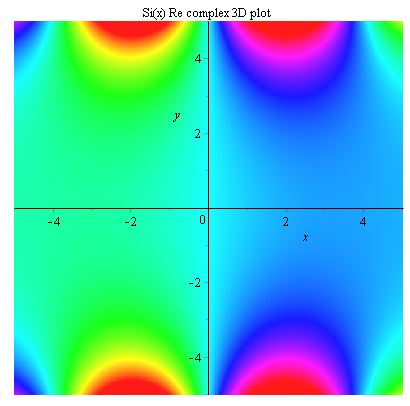 Si(x) Re complex density plot